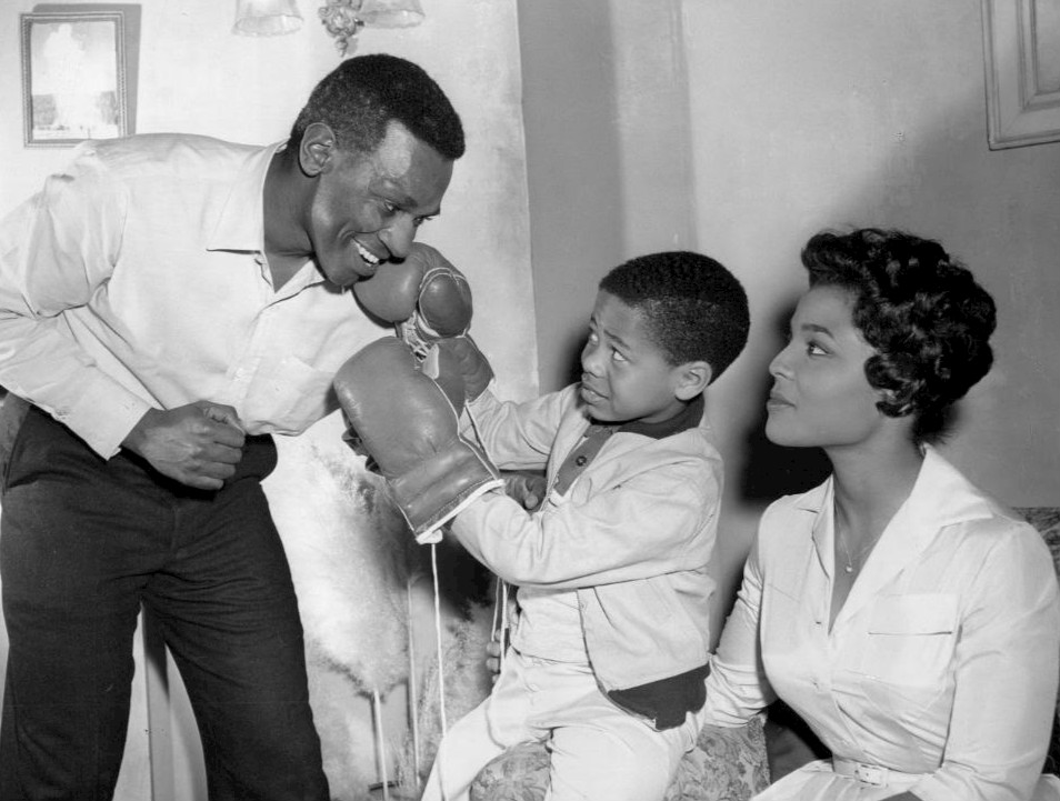 Photo of Ivan Dixon, Steven Perry and Kim Hamilton from The Twilight Zone episode "The Big Tall Wish".